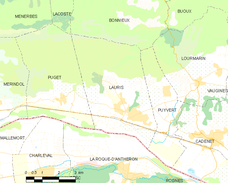 Map of French municipality Lauris